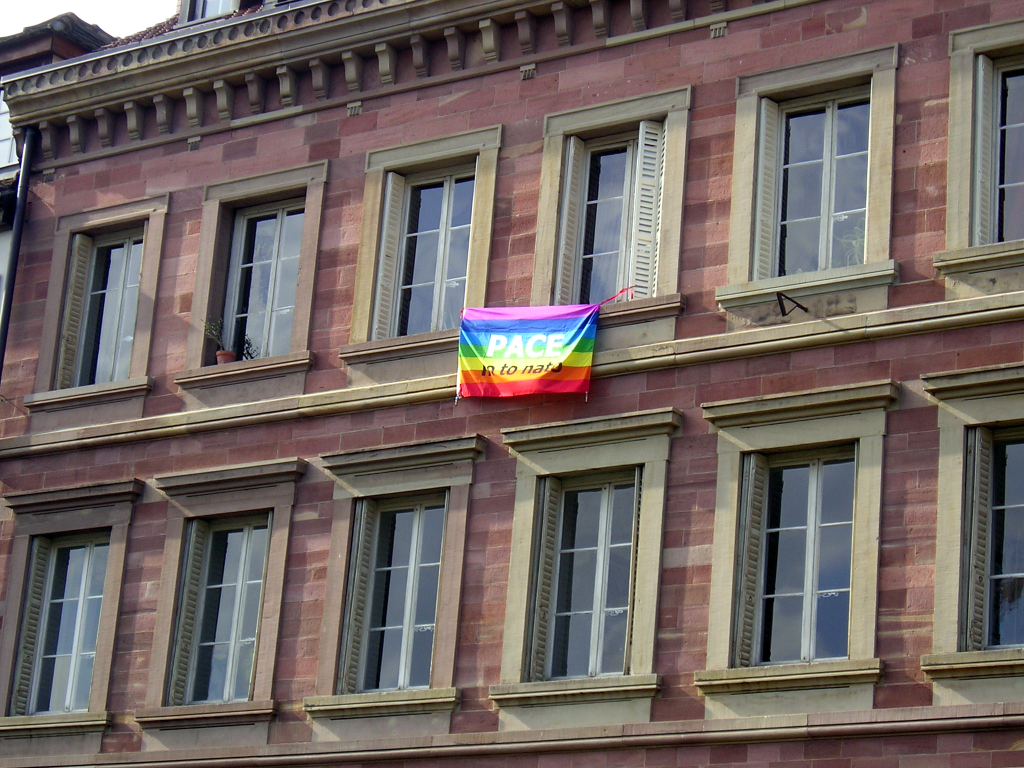 Peace's flag on a Strasbourg building during the NATO summit 2009